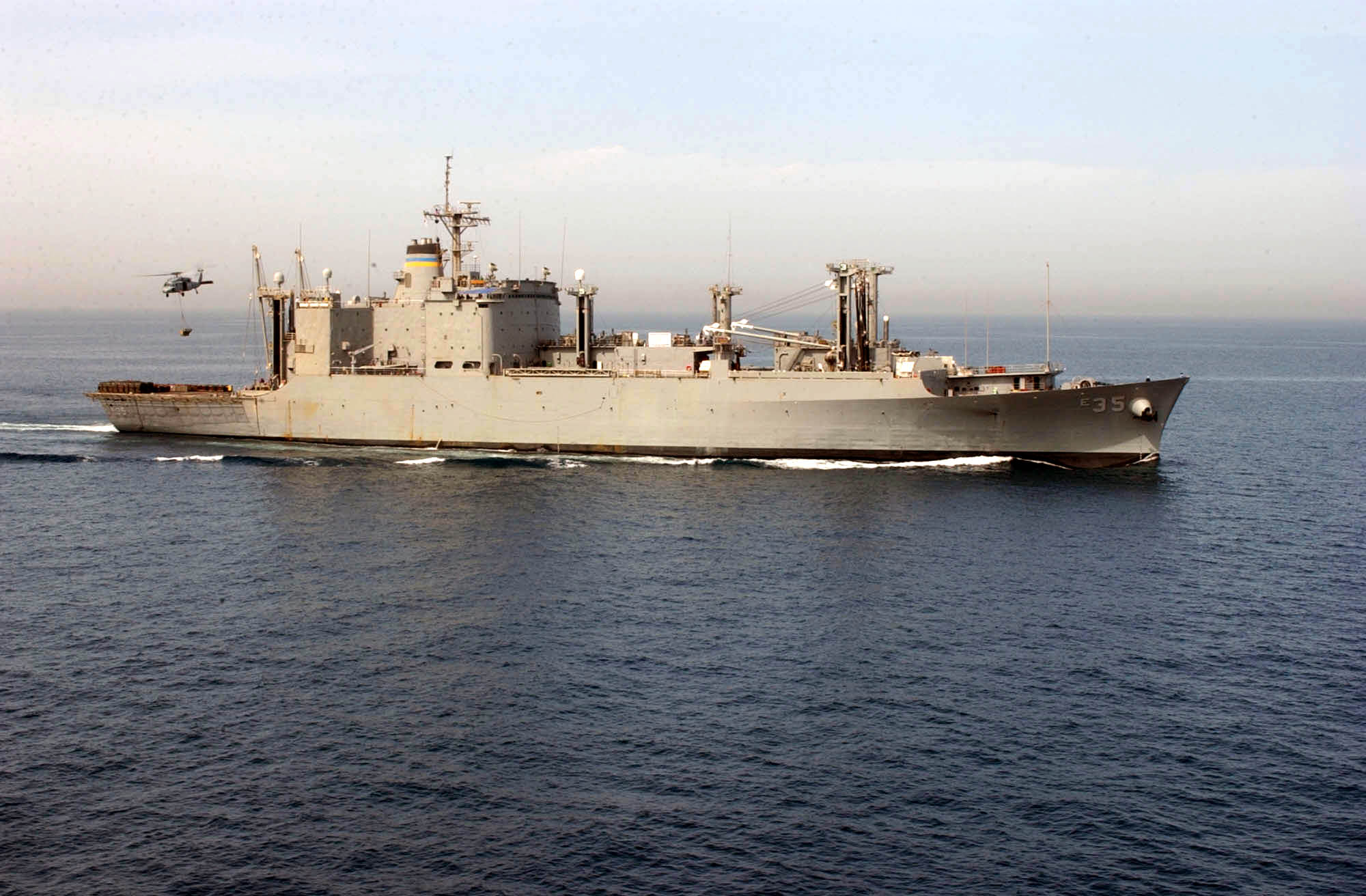 The Arabian Gulf (Apr. 5, 2003) — An SH-60 Seahawk helicopter picks up ordnance from the Military Sealift Command ammunition ship USNS Kiska (T-AE-35) for delivery aboard USS Constellation (CV-64) during a vertical replenishment at sea (VERTREP). Constellation Carrier Strike Group is deployed in support of Operation Iraqi Freedom, the multinational coalition effort to liberate the Iraqi people, eliminate Iraq’s weapons of mass destruction and end the regime of Saddam Hussein.